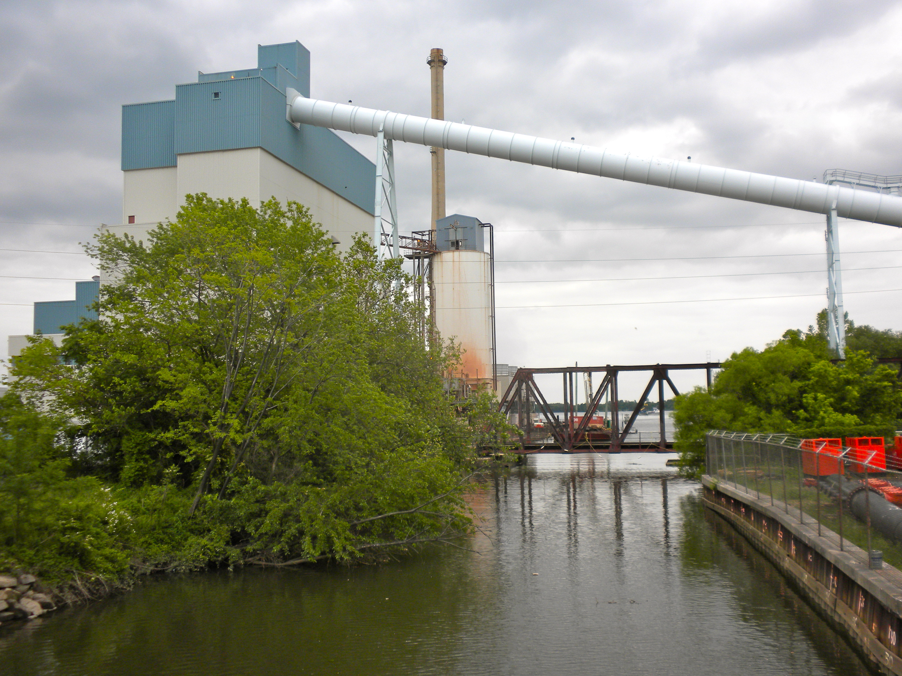 Mouth of Chester Creek on the Delaware River in Chester, Pennsylvania, near the William Penn Landing Site